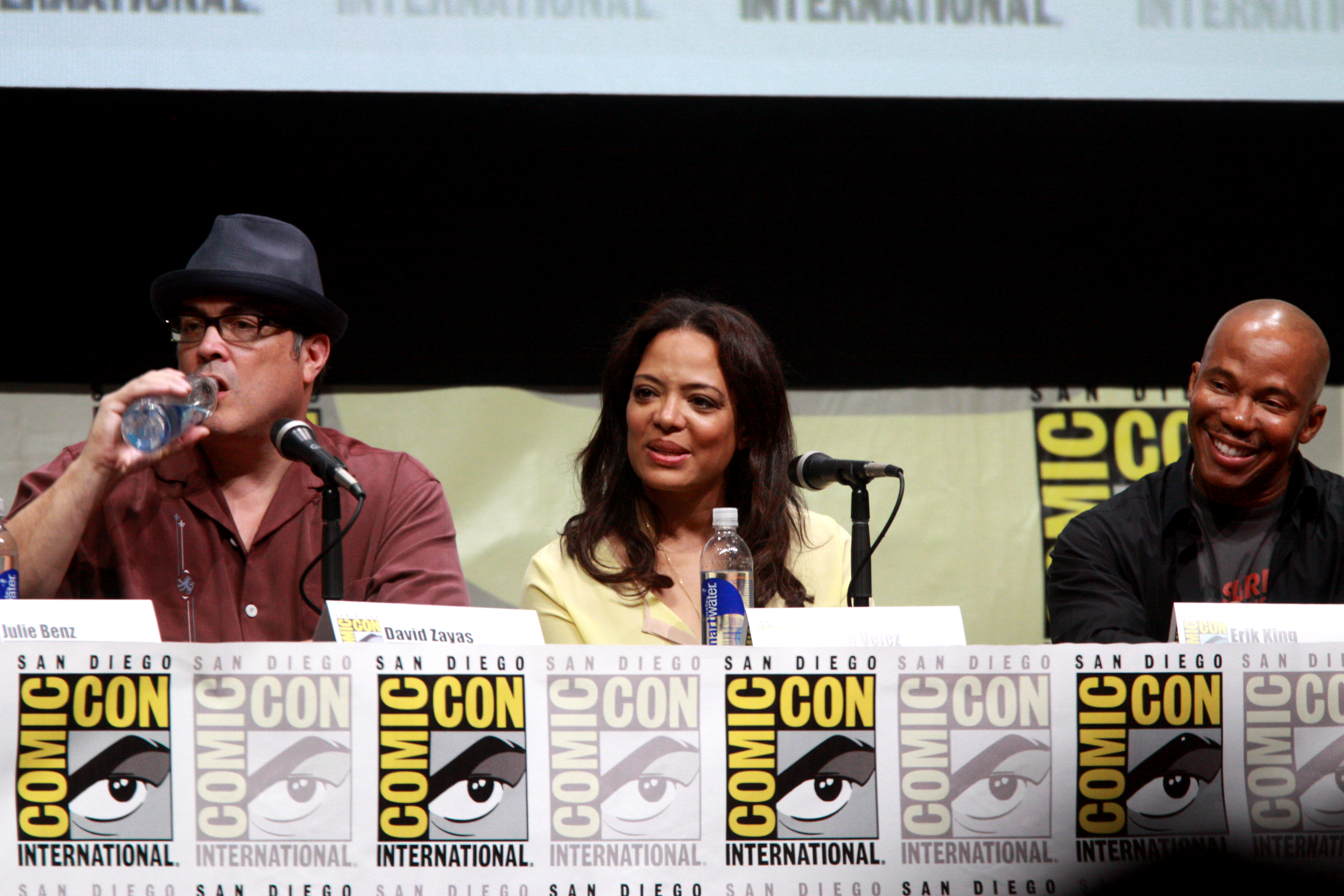 David Zayas, Lauren Vélez & Erik King speaking at the 2013 San Diego Comic Con International, for "Dexter", at the San Diego Convention Center in San Diego, California.